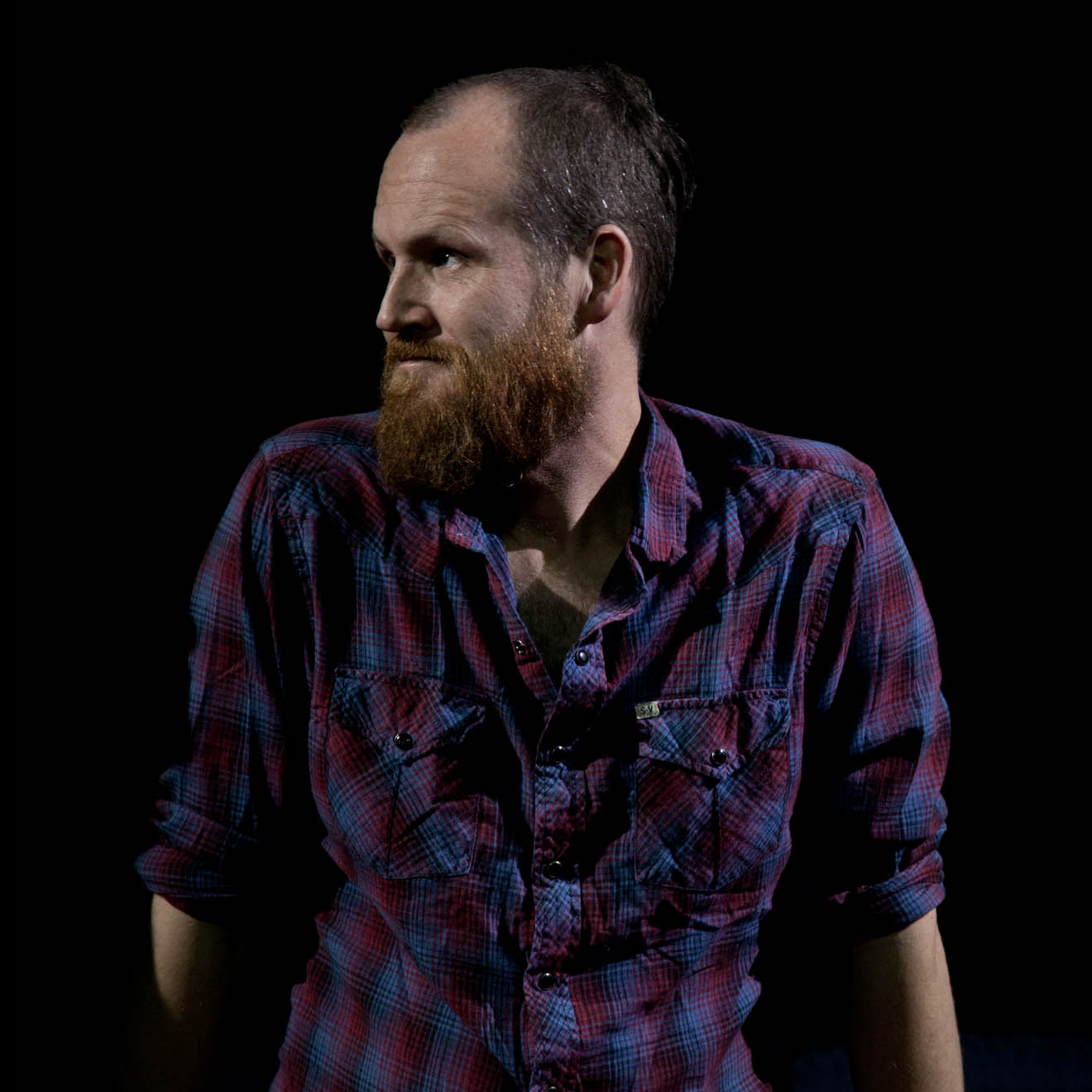 Ben Russell at a screening of his film A Spell to Ward Off the Darkness in Puebla, Mexico. Saturday, 22 February 2014. Picture by Luis Torio.